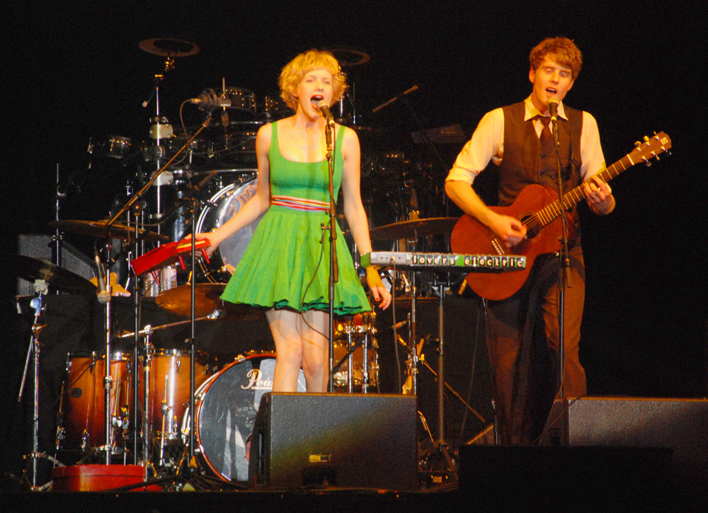 Lovers Electric In Concert at the Liverpool Summer Pops 2007 Lovers Electric are Eden Boucher (Vocals, Casio & Toy piano) and David Turley (Guitar, Vocals, Bass, Keyboards). Eden & David both grew up in Australia – Eden with her six sisters together in a motor home and David with his poet dad and pianist mum. They have spent most of the past few years living in London and pursuing a number of careers including street theatre and fashion design. I saw them at the Summer Pops in Liverpool supporting the much more famous Orchestral Manouevres in the Dark (a band often known as OMD). I thought they were very brave performing to a huge crowd armed with just 2 instruments, one a casio piano and a toy piano! I suppose support acts can get away with anything! Nice legs Eden!